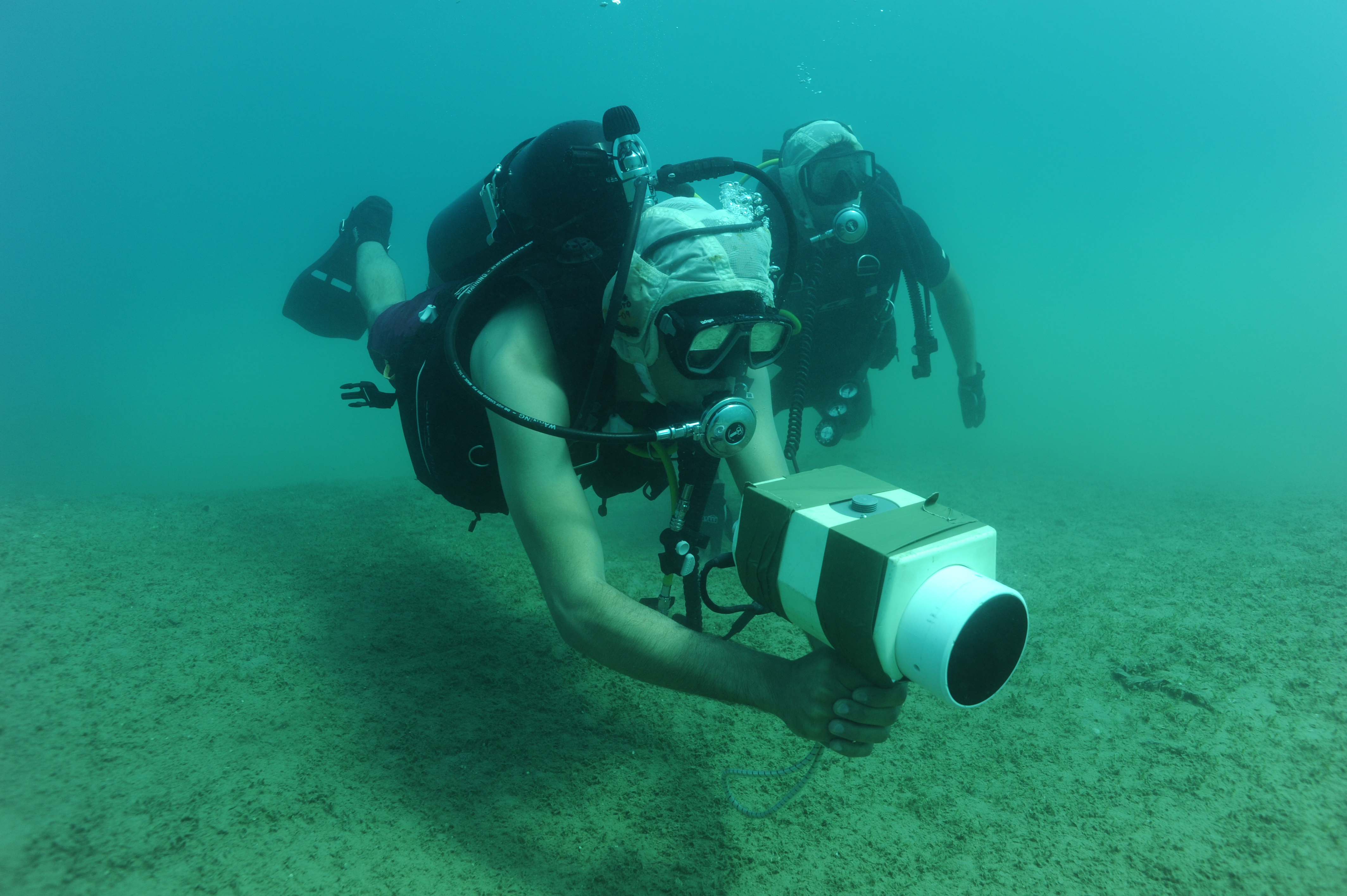 RED SEA (July 8, 2010) Explosive Ordnance Disposal Technician 3rd Class Jonathan Sokol, assigned to Explosive Ordnance Disposal Mobile Unit (EODMU) 1, deployed as a part of Task Group 56.1, conducts training on a AN/PQS 2A hand held sonar. EODMU-1 is deployed as part of Task Group 56.1, supporting maritime security operations and theater security cooperation operations in the U.S. 5th Fleet area of responsibility. (U.S. Navy photo by Mass Communication Specialist 2nd Class Kathleen A. Gorby/Released)